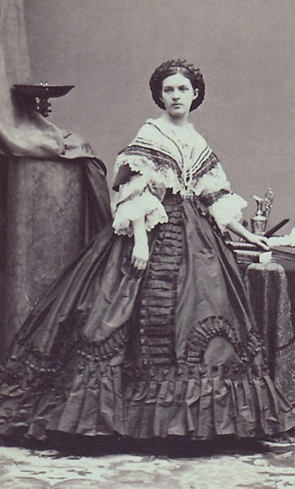 Guillemette Josephine Brunold, countess von Tieffenbach (1834—1892), morganatic stepdaughter of Prince of Frederick of Nassau (1768—1816) and the wife of Emile de Girardin.